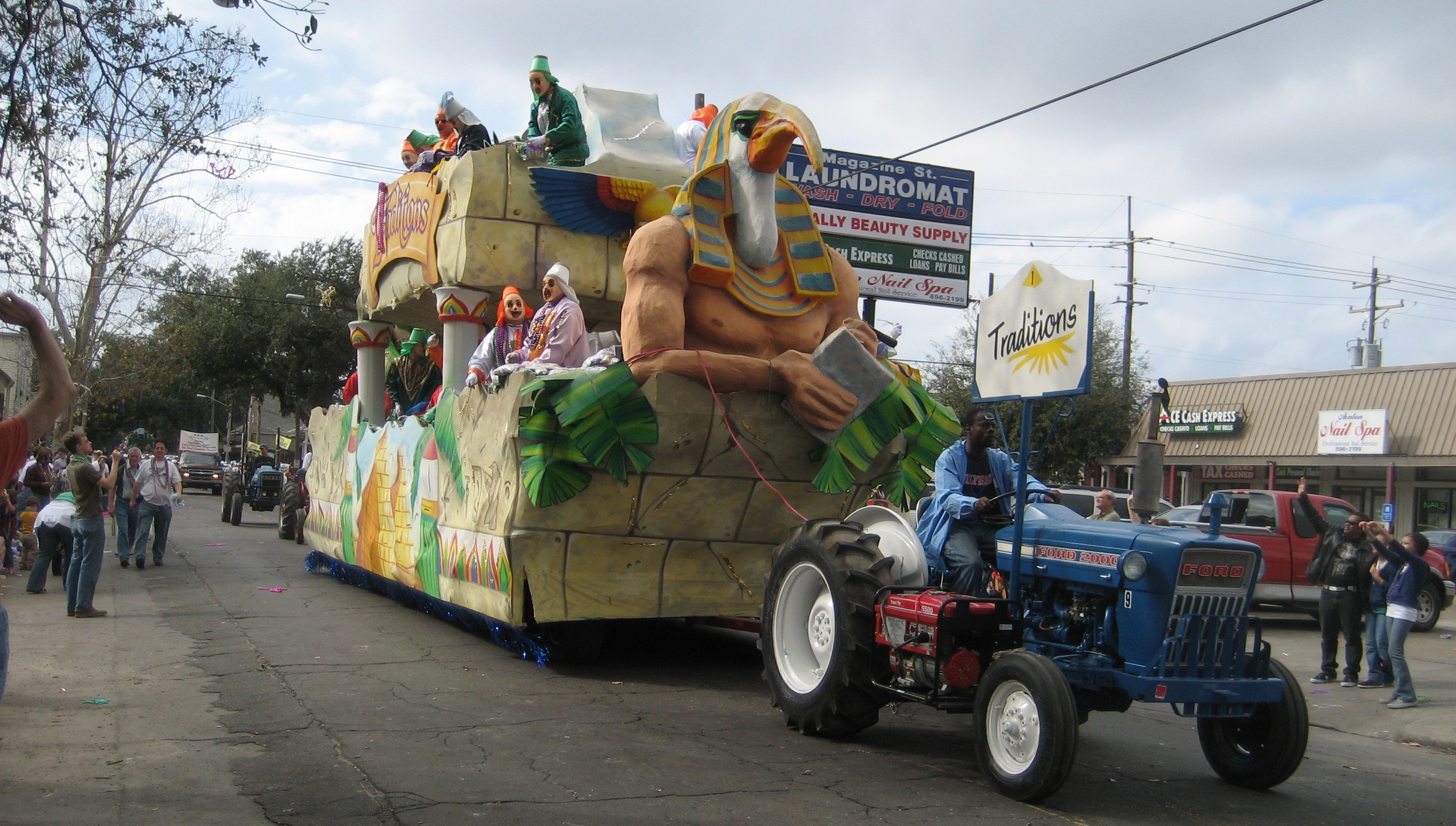 Float, Krewe of Thoath parade, Magazine Street, New Orleans Carnival.